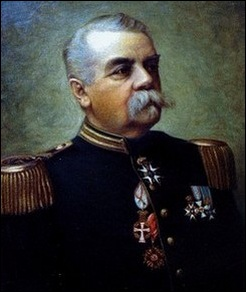 Painting of Gustaf Björlin as regimental commander of Gotland Infantry Regiment (I 27).